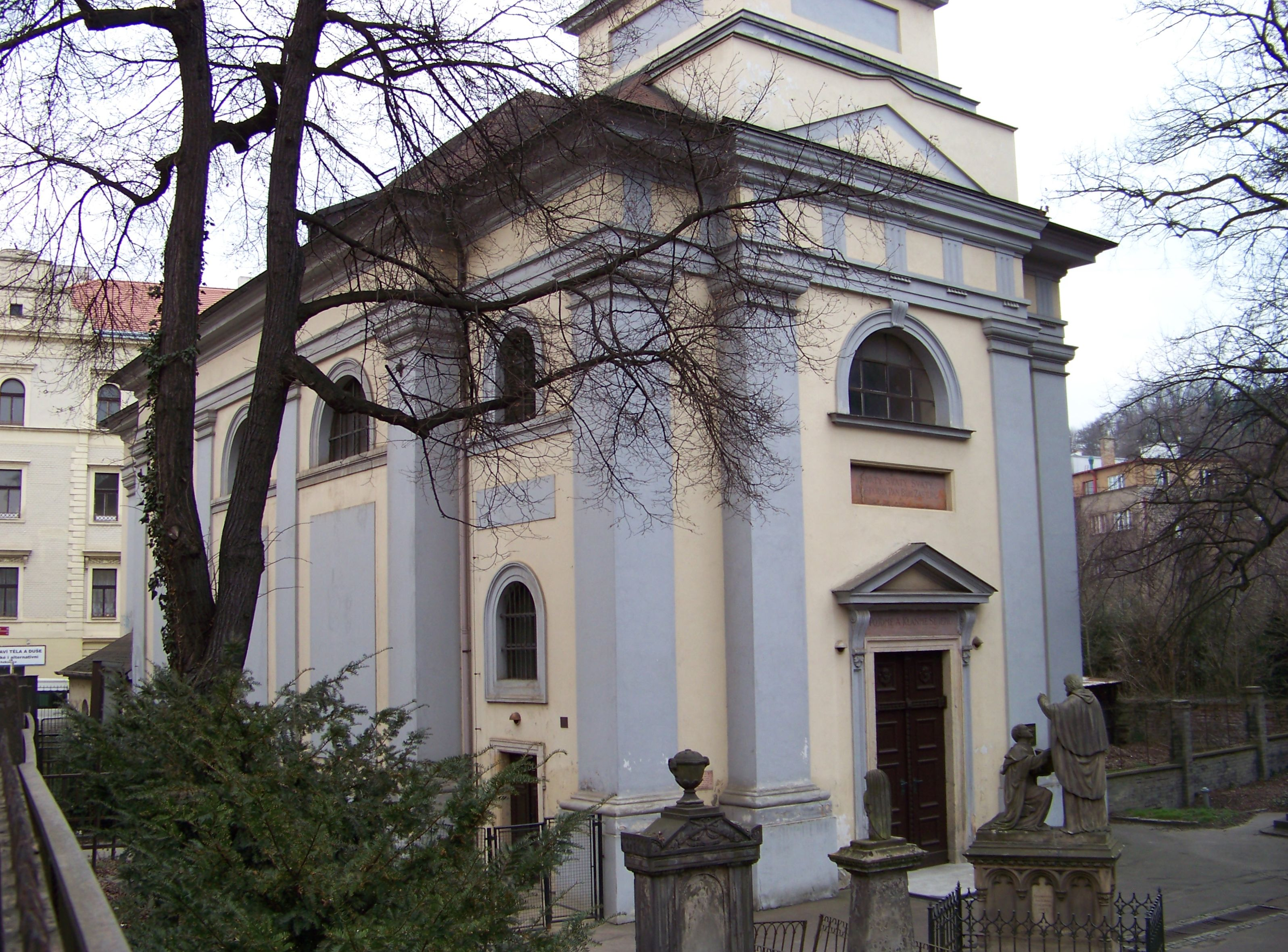 Prague-Smíchov, Czech Republic. Plzeňská street, Malá Strana Cemetery, church of the Holy Trinity.